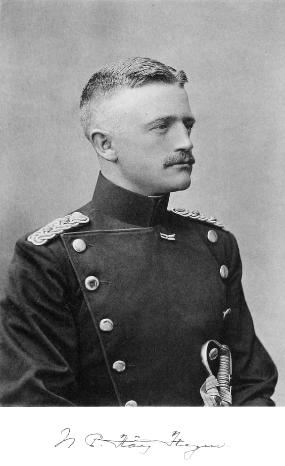 Niels Peter Høeg-Hagen (1877-1907), Danish army officer, cartographer, and arctic explorer